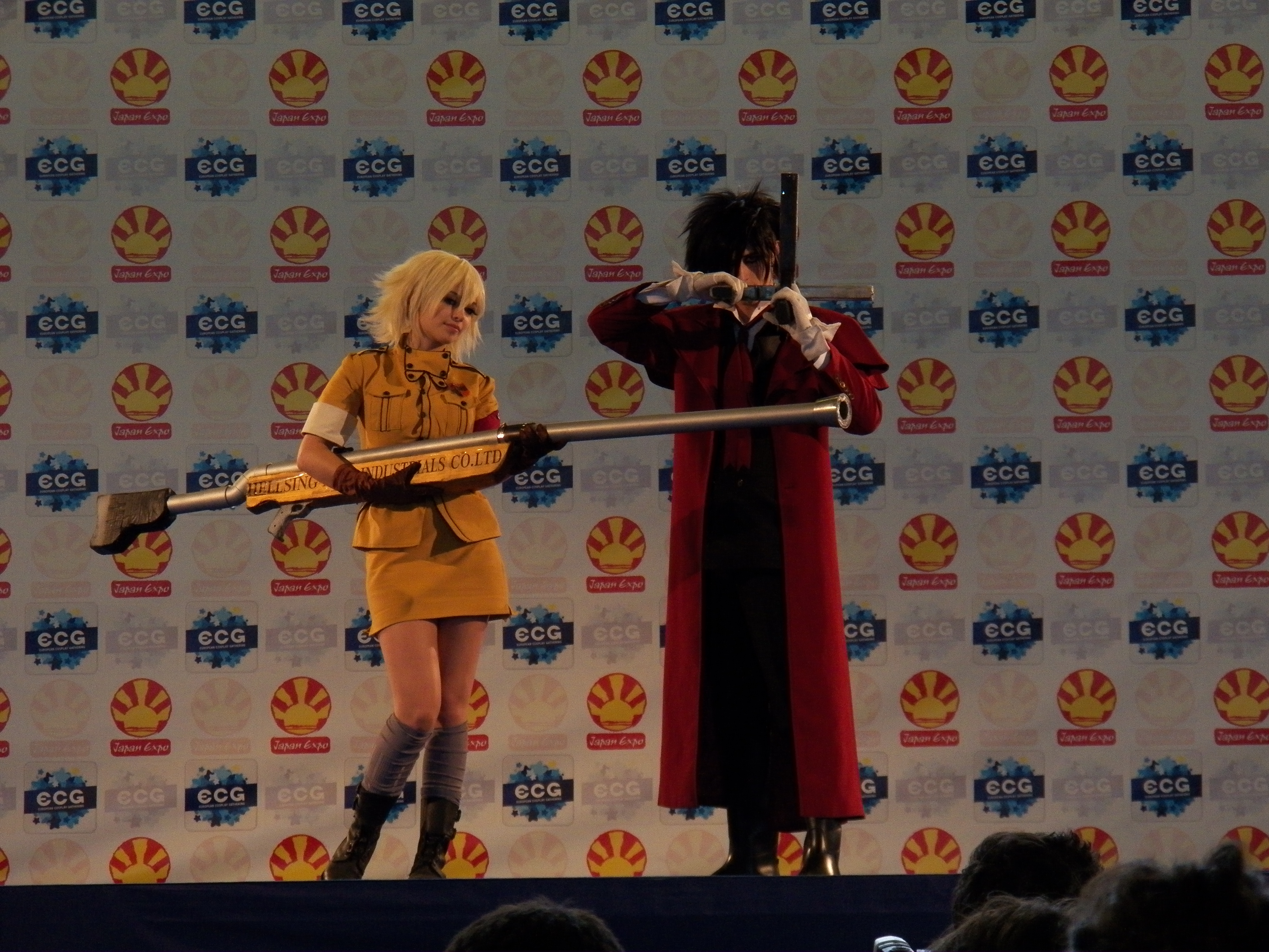 Hellsing cosplayers at Japan Expo 2012.